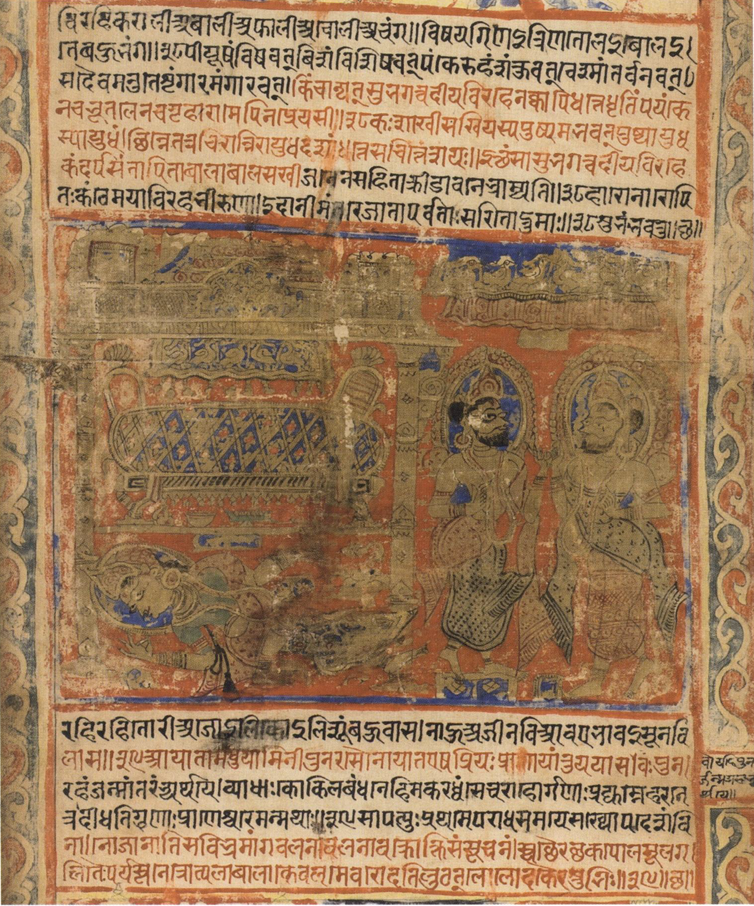 Example of the interweaving of languages and pictorial images, Vasanta Vilasa, 1451 CE. Structure: Line 1: Early Gujarati verse 38 Line 2: Early Gujarati verse 38, Sanskrit verse 1 Line 3: Sanskrit verse 1, and 2 Line 4: Sanskrit verse 2 Line 5: Sanskrit verse 2 Line 6: Sanskrit verse 2, and 3 Line 7: Sanskrit verse 3, and a benediction Painting of a young lovesick wife whose husband is away Line 1: Early Gujarati verse 39 Line 2: Early Gujarati verse 39, Sanskrit verse 1 Line 3: Sanskrit verse 1, and 2 Line 4: Sanskrit verse 2 Line 5: Sanskrit verse 3 Line 6: Sanskrit verse 3, and a benediction